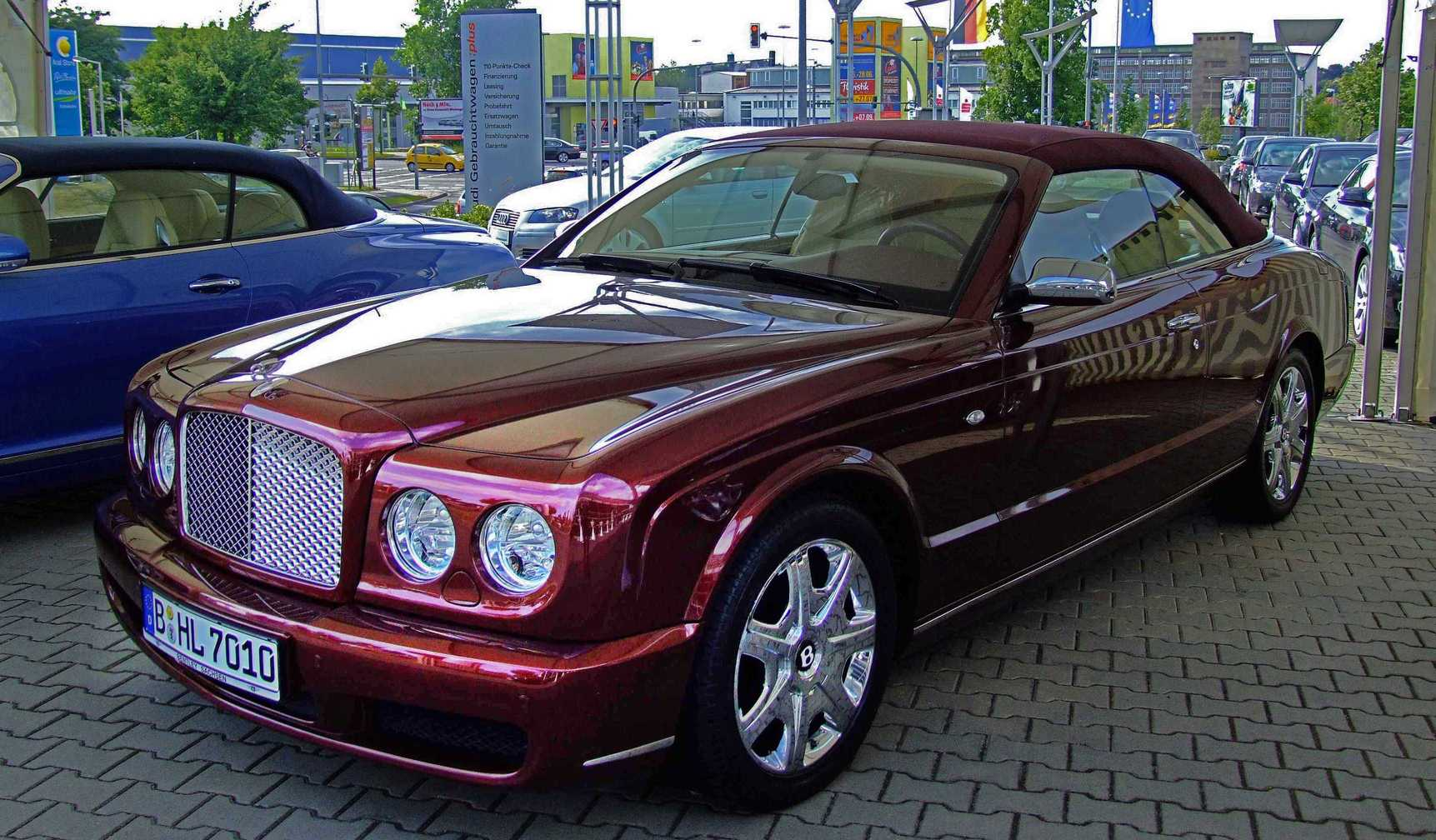 bentley II